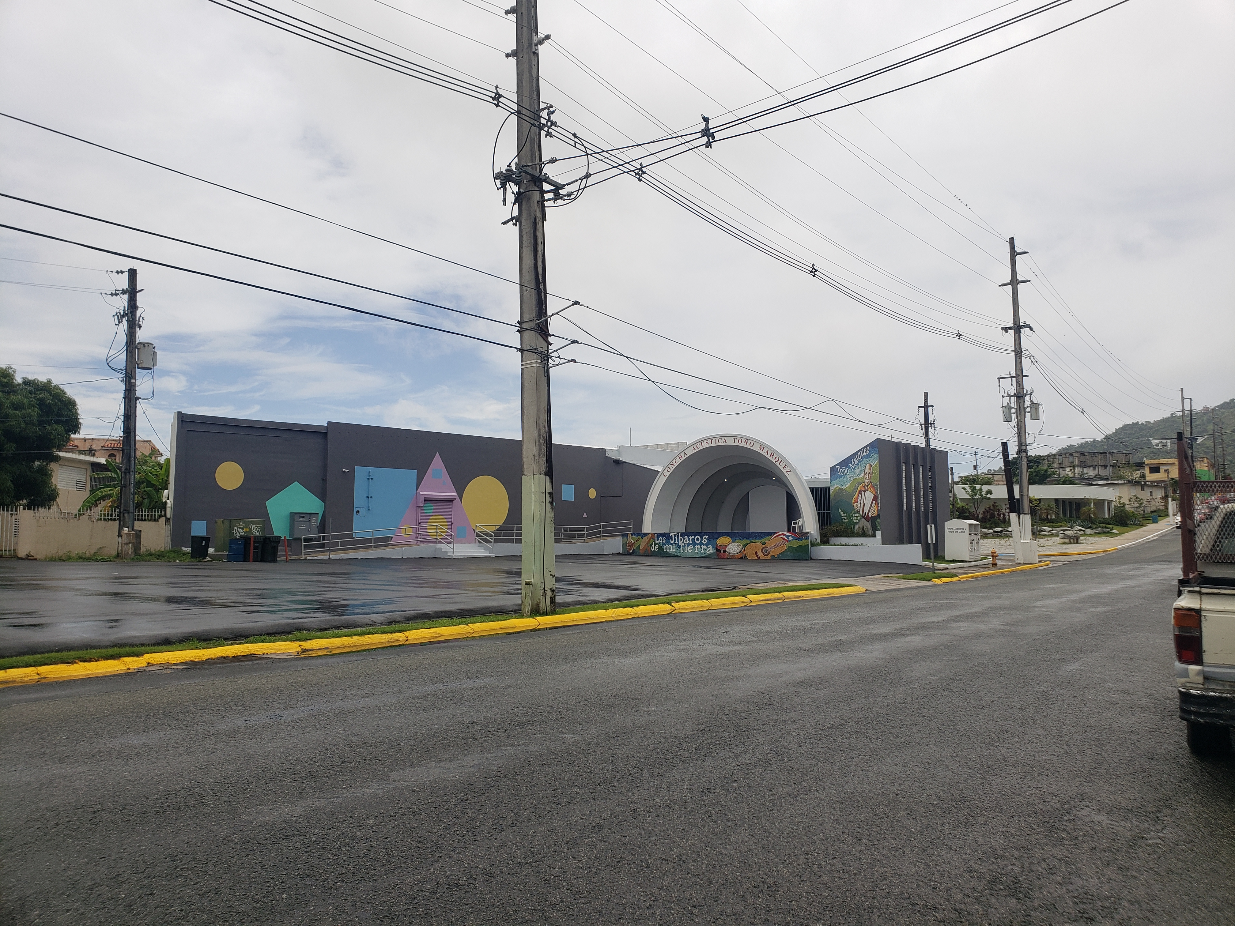 Concha Acústica Toño Márquez in Yabucoa, Puerto Rico is a place where community events are held